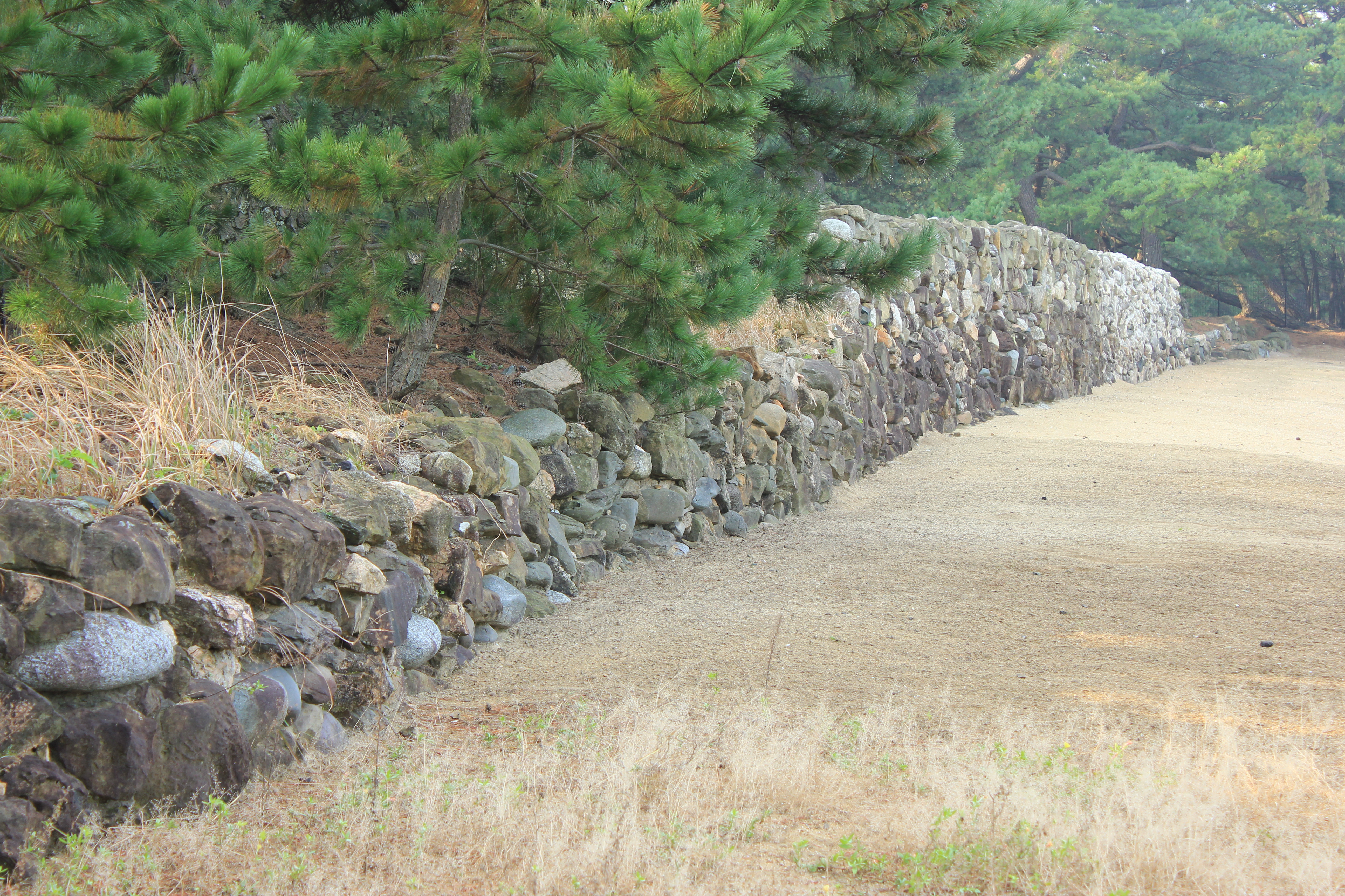 Genko Borui in Ikinomatubara